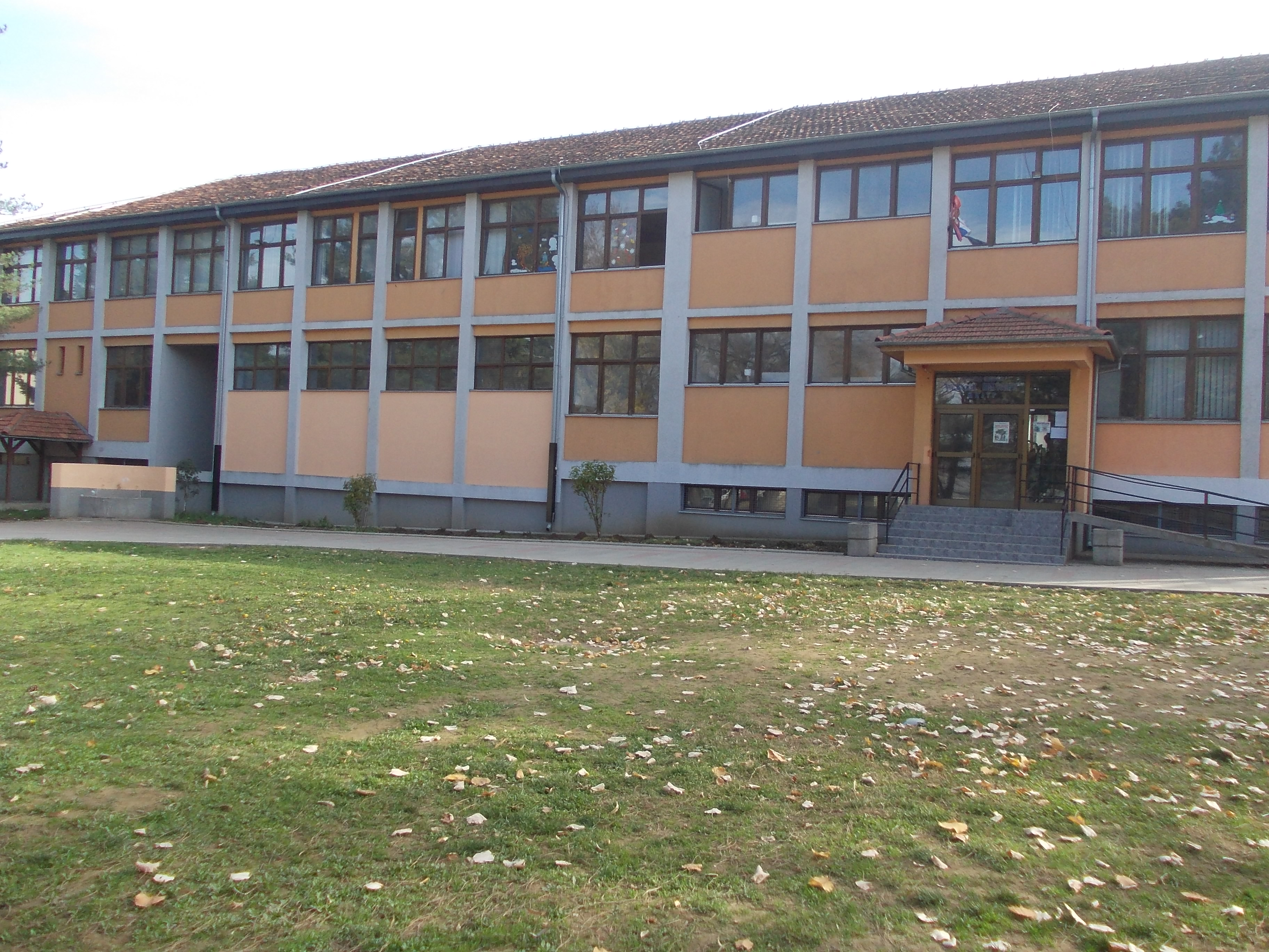 OŠ "Radislav Nikčević" u Majuru